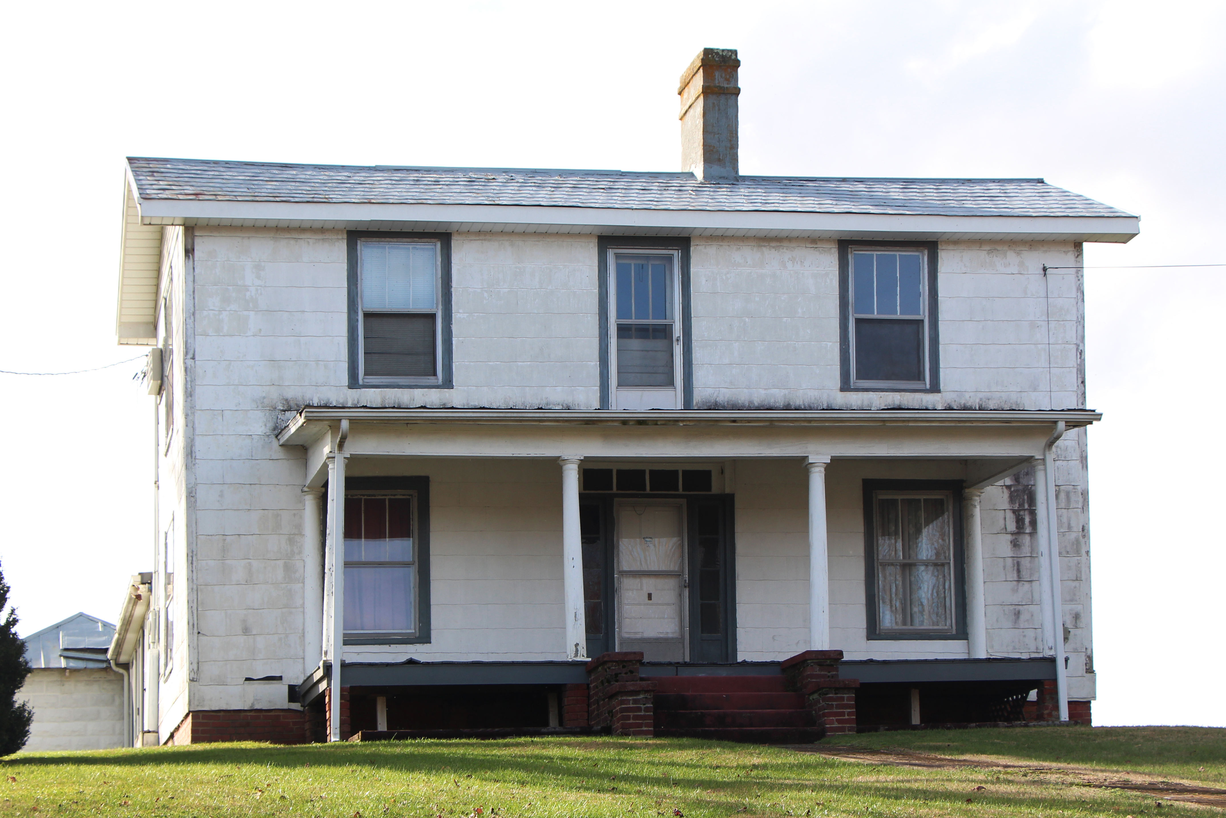 McCullough Residence, 121 Church St., Bulls Gap, TM